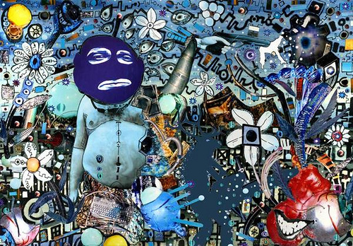 The winning entry of the Noise festival elements competition.